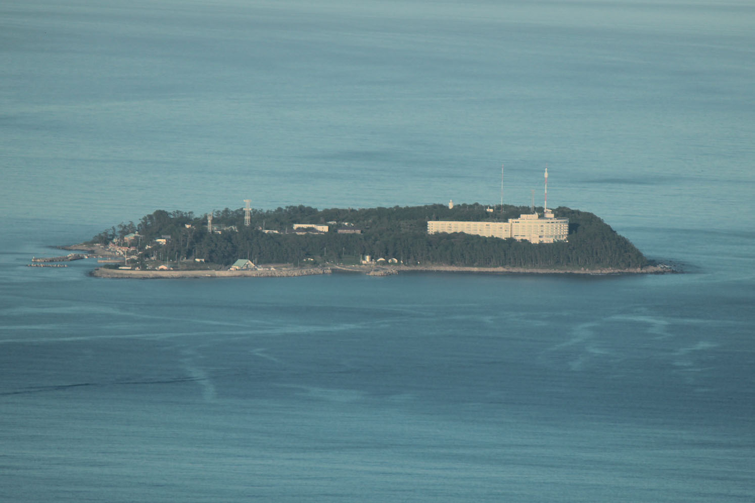 Hatsushima as seen from the WNW in Japan.